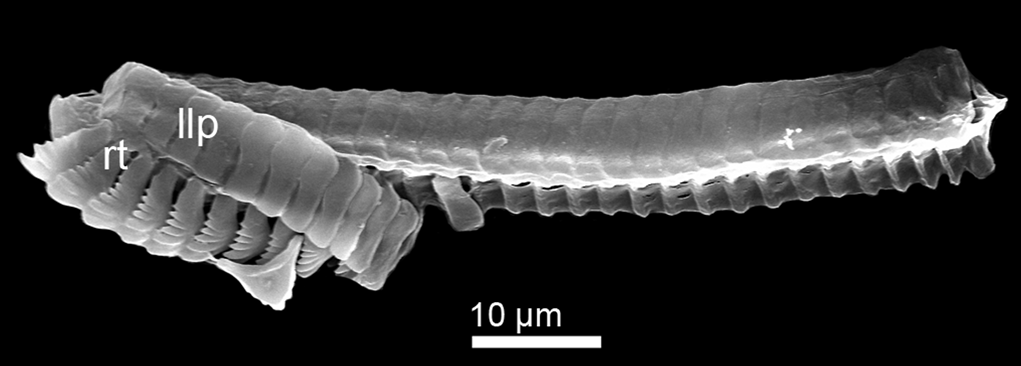 SEM image of radula of Pontohedyle verrucosa. rt = rachidian tooth, llp = left lateral plate.